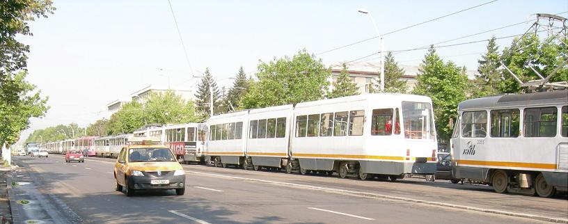 RATB trams in Bucharest, Romania